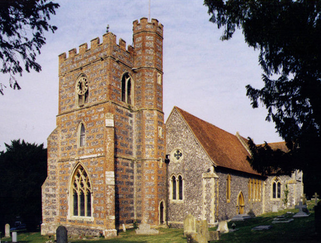 Church of England parish church of St Andrew, Bradfield, Berkshire: view from the southwest